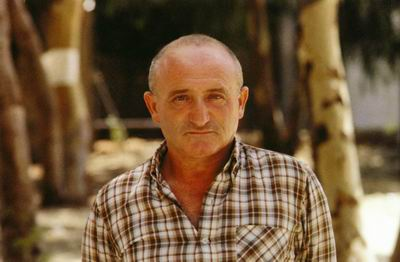 Photograph